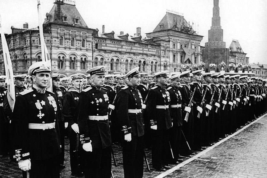 Soviet Victory Parade on Red Square